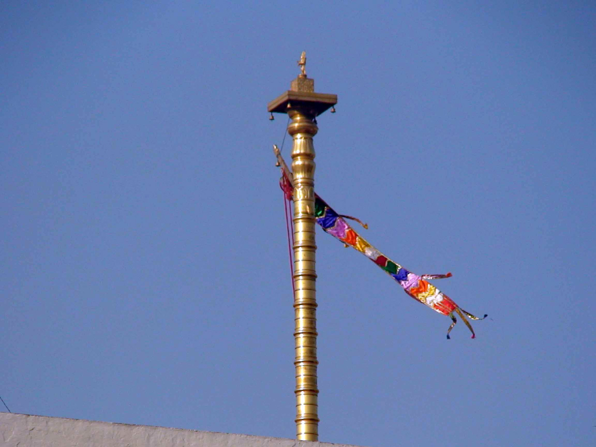 Guruvayur Temple flagstaff and flag